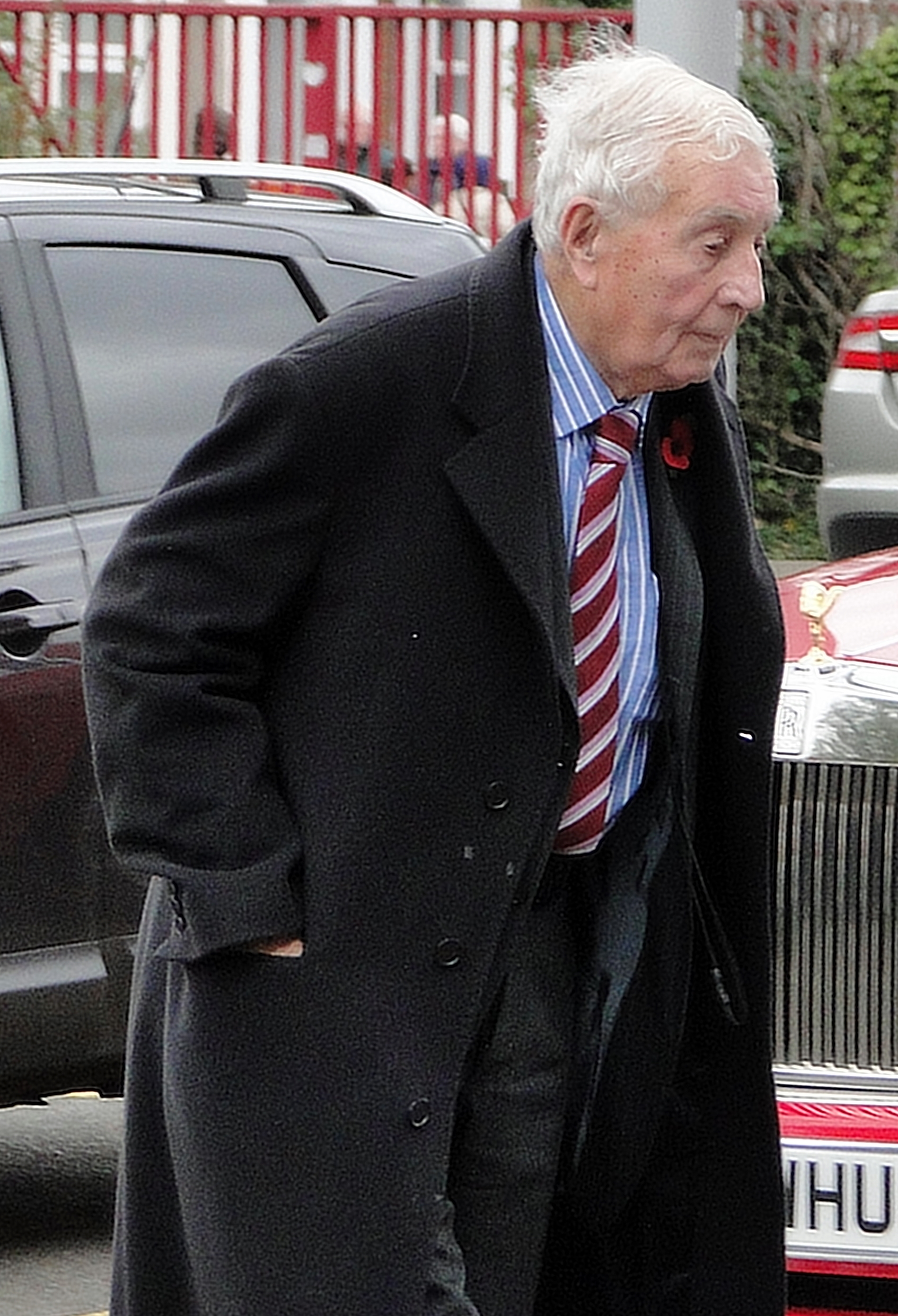 Former chairman of Aston Villa, Doug Ellis, arriving at the Boleyn Ground for their game against West Ham United in the Premier League.